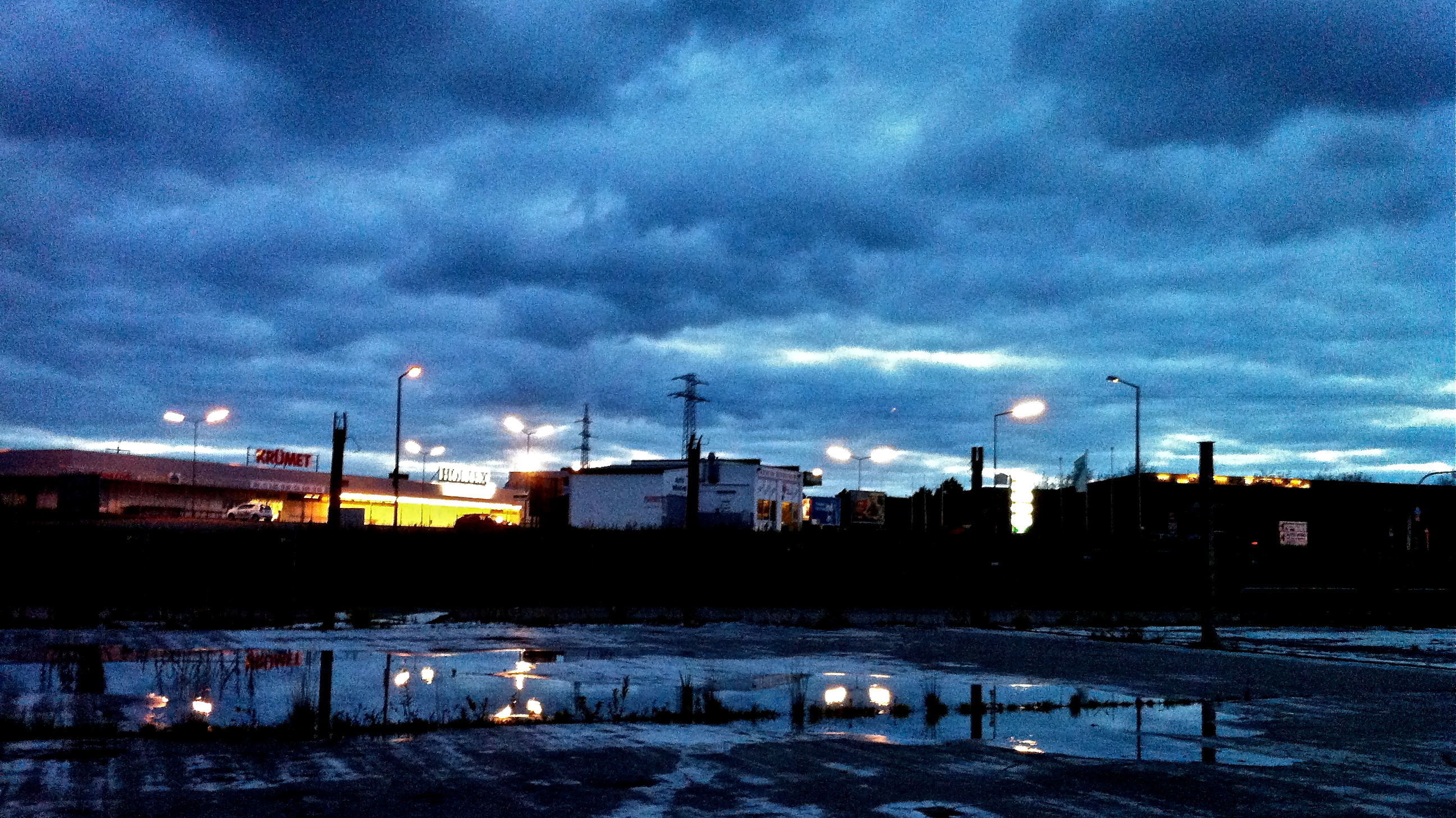 The dark days are coming ... Holtex und Krümet